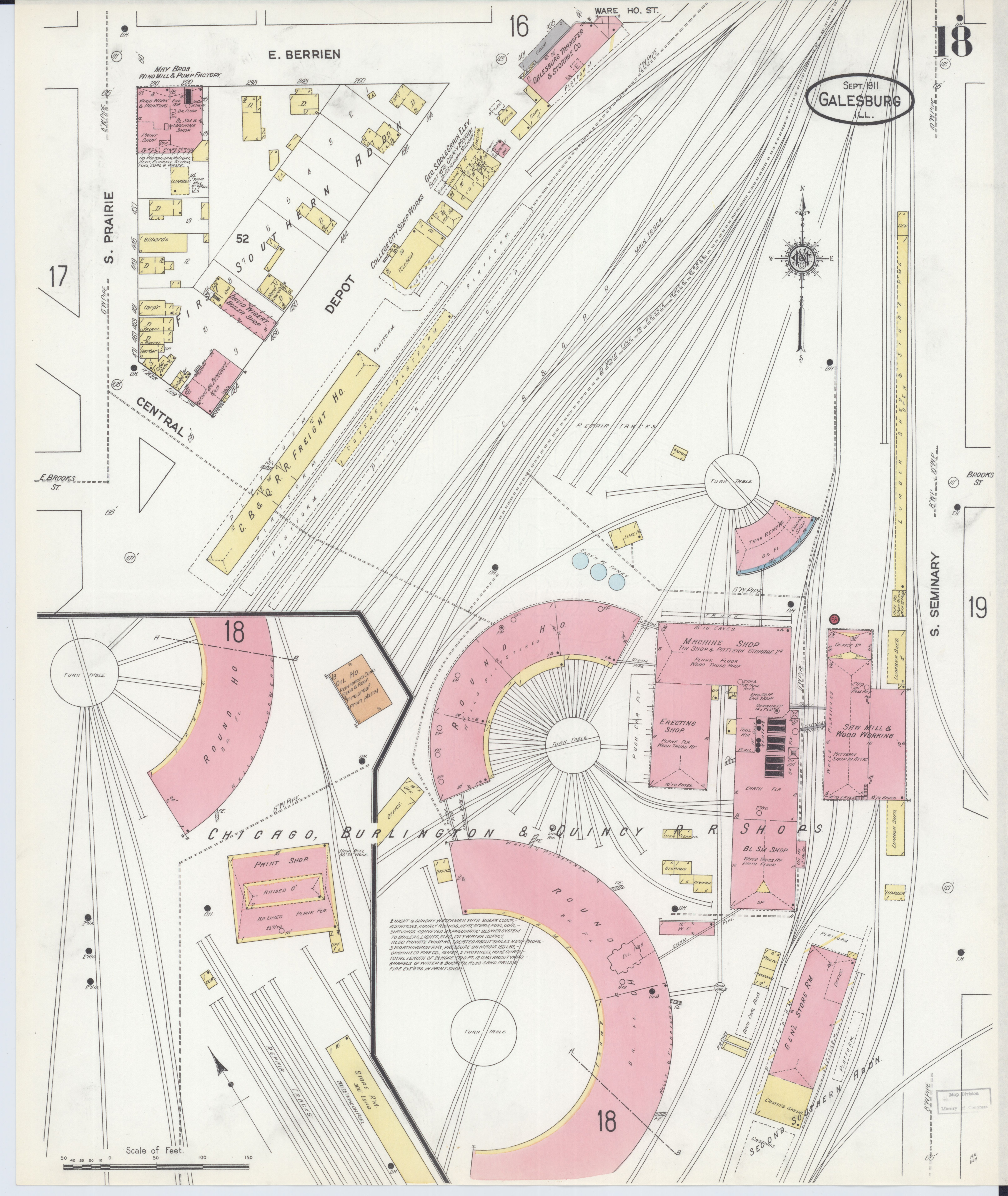 Sep 1911. 23 Sheet(s).